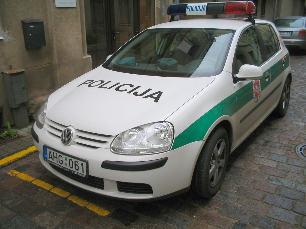 Police Cruiser, Kaunas, Lithuania.